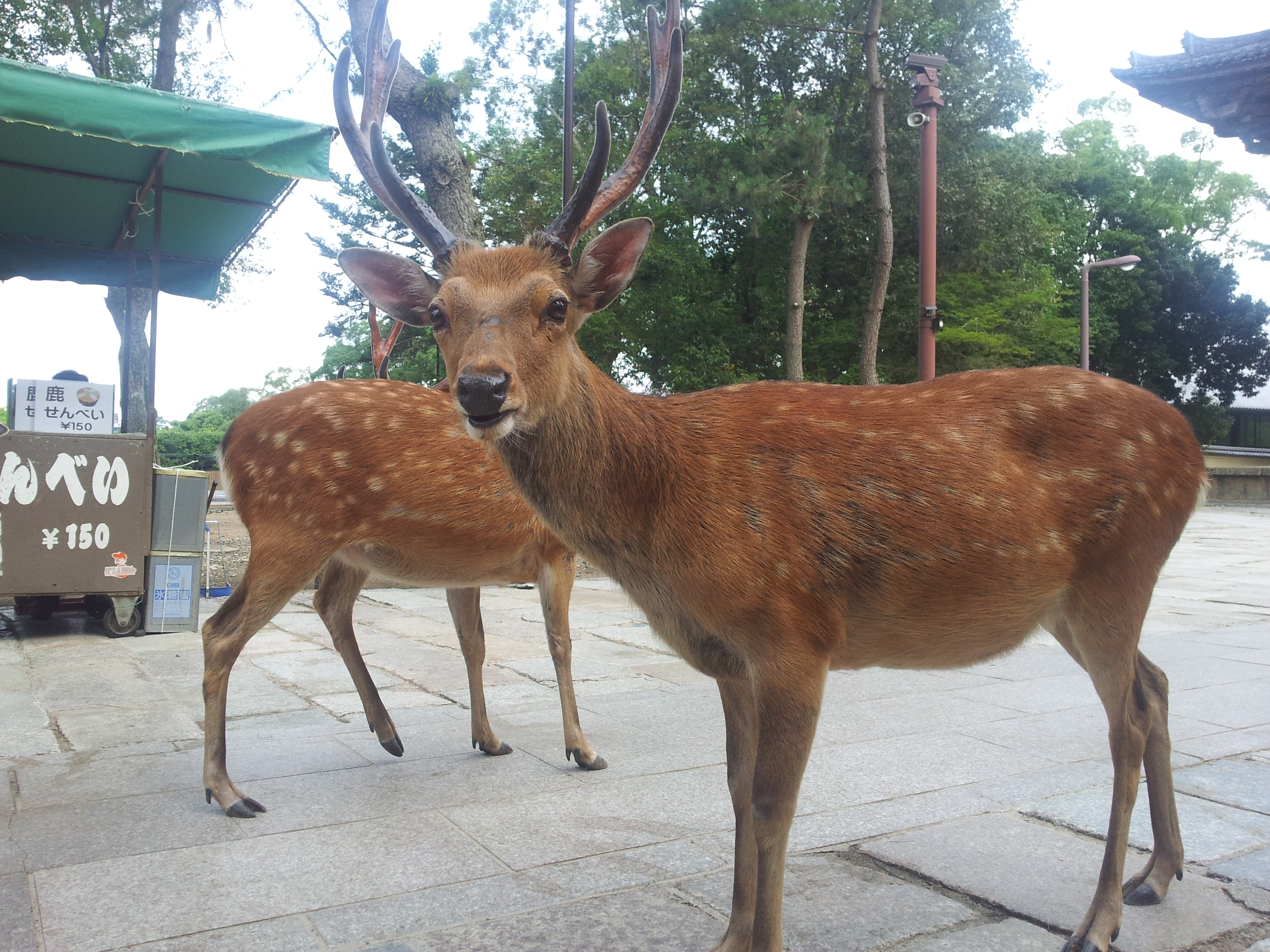 Full body portrait of a deer in Nara Park.